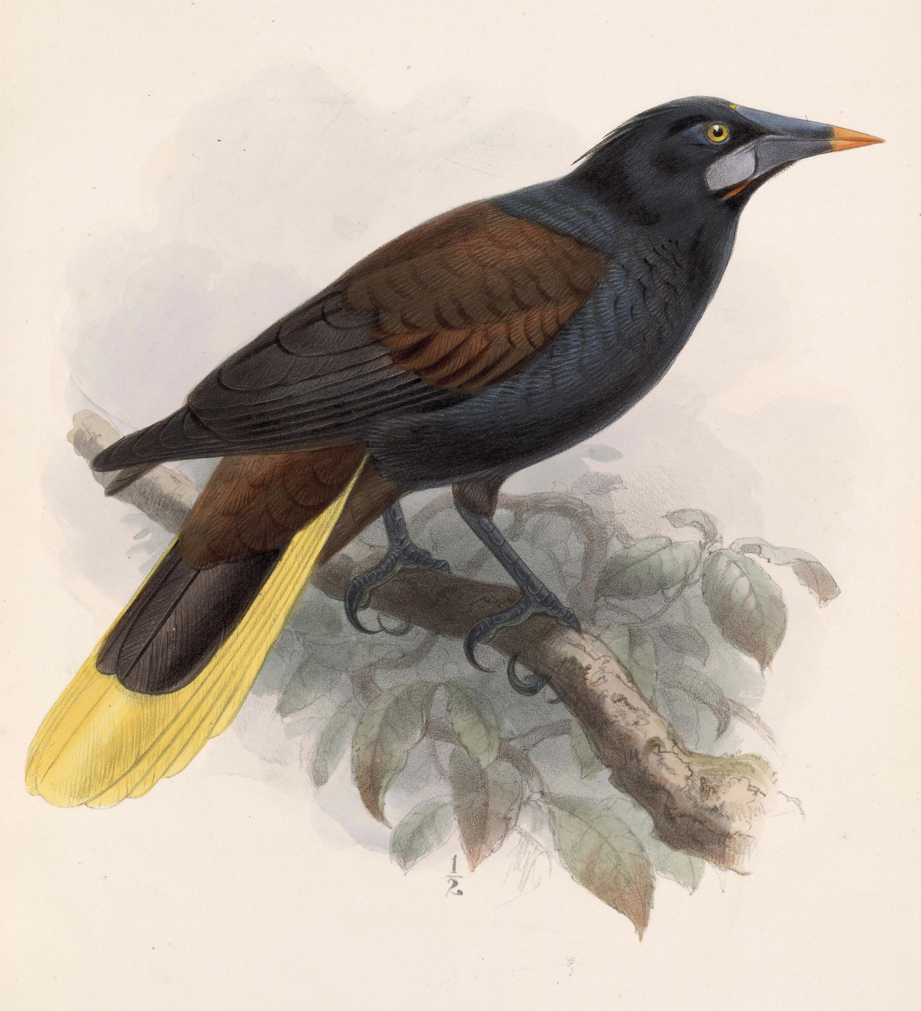 « Ostinops guatemozinus » = Psarocolius guatimozinus (Black Oropendola)